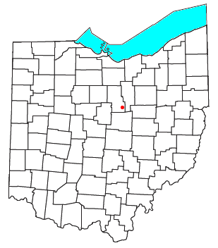 Locator map of the unincorporated community of Newville in Richland County, Ohio, United States.